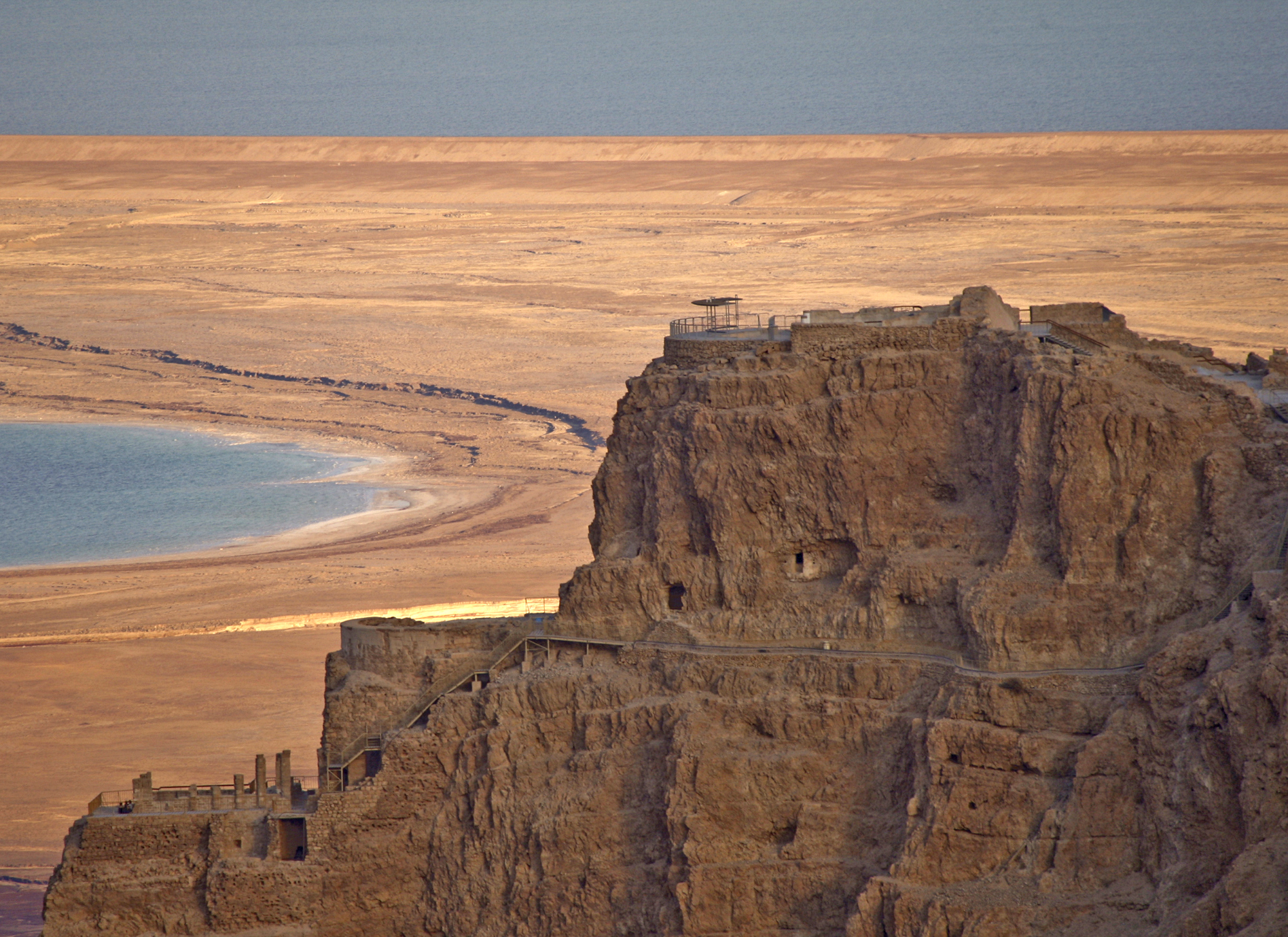 Masada northern palace built by King Herod the palace built on three levels of rock 30 meters apart.